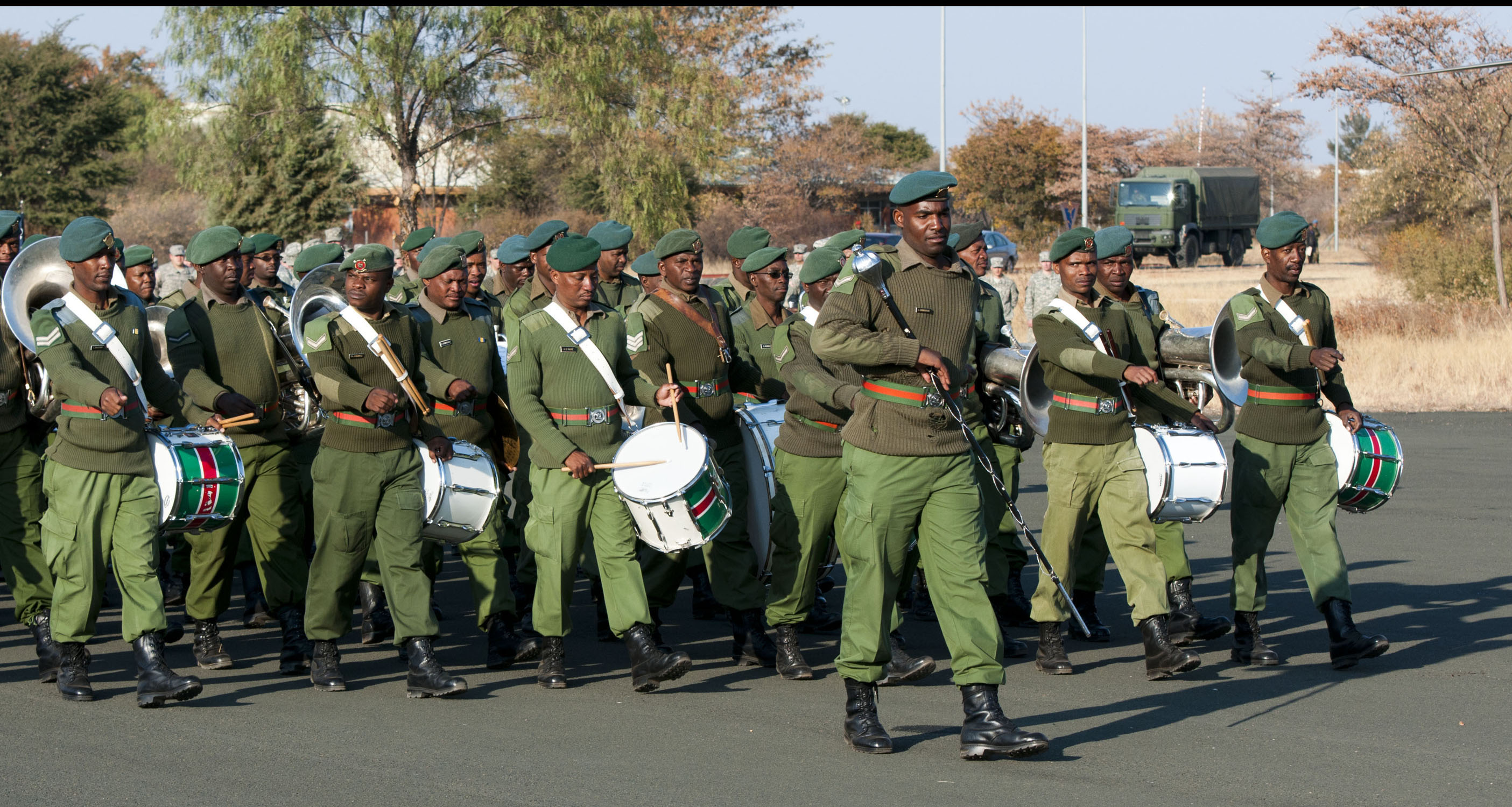 The Botswana Defense Force Band marches out during the opening ceremony of Southern Accord 2012 at Thebephatshwa Air Base, Republic of Botswana. The BDFB provided the musical accompaniment for the ceremony, and set a spirited tone for the event.